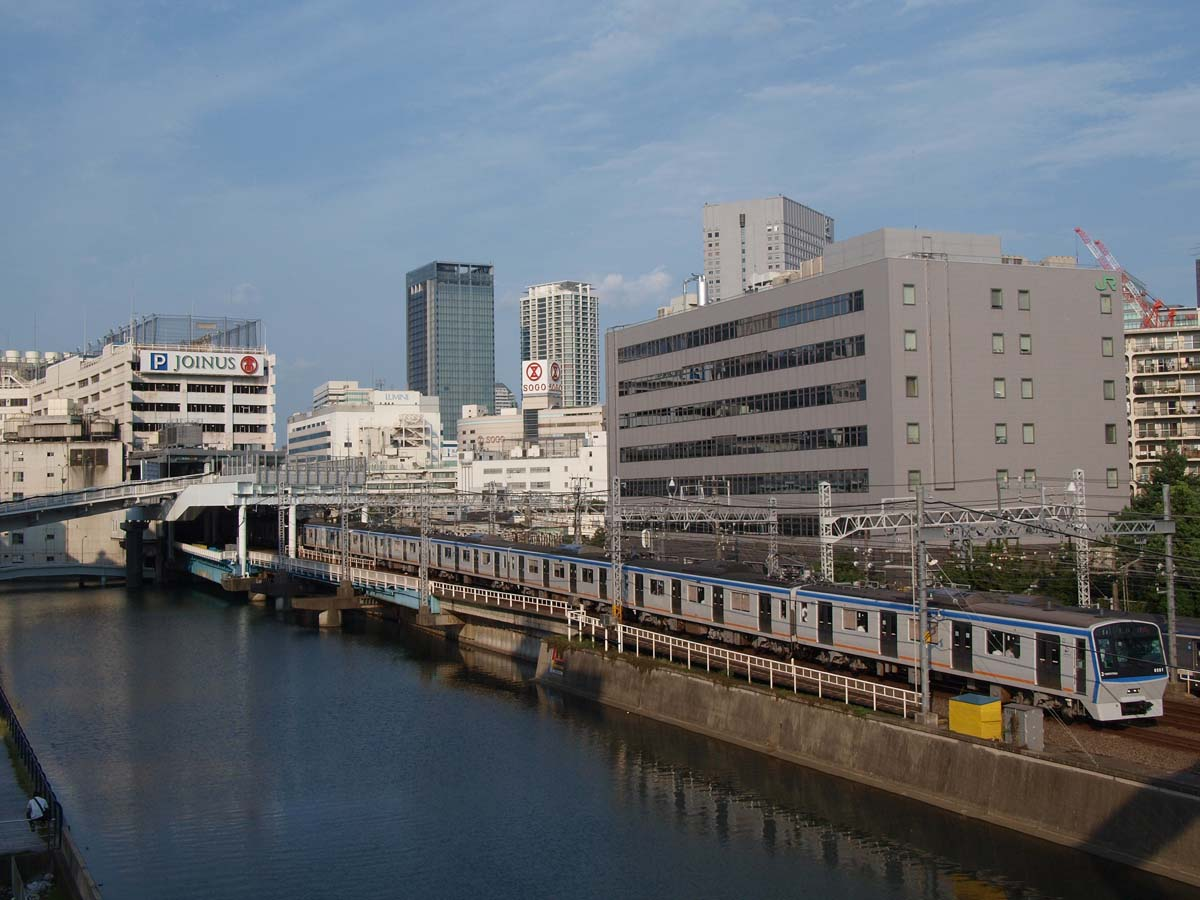 Sagami railway 8000 series train was approaching Yokohama Station. This picture was taken from Hiranuma Bridge in Nishi-ku, Yokohama.Olympus E-420